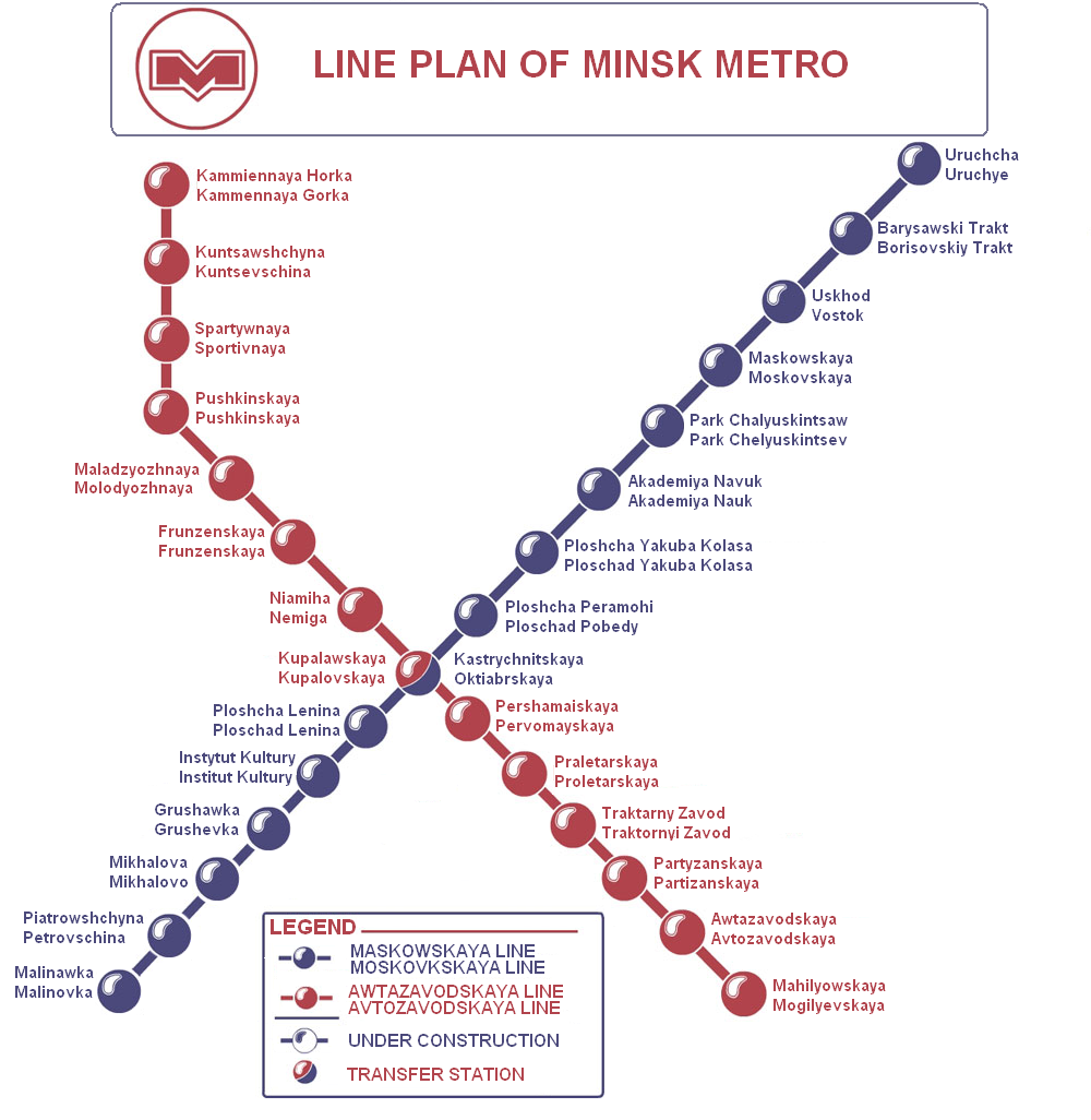 Plan of the Minsk Metro, as of November 2012